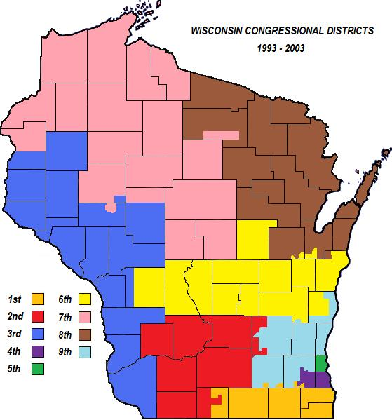 Wisconsin Congressional Districts following the 1990 Census (1993-2003).